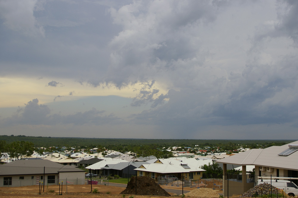 Suburb of Farrar taken from The Chase, Northern Territory.